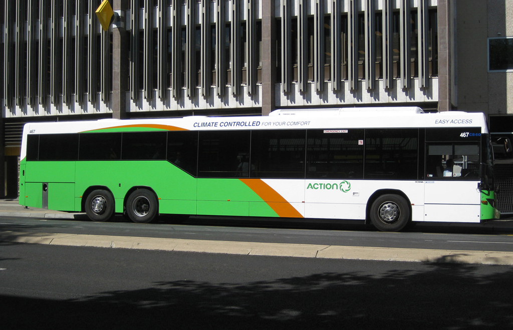 ACTION Steer Tag 14.5m Scania K320UB, Canberra Australia